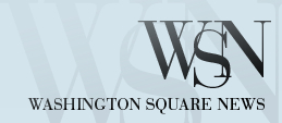 The Washington Square News' logo and template re-imagined for the 38th print edition.